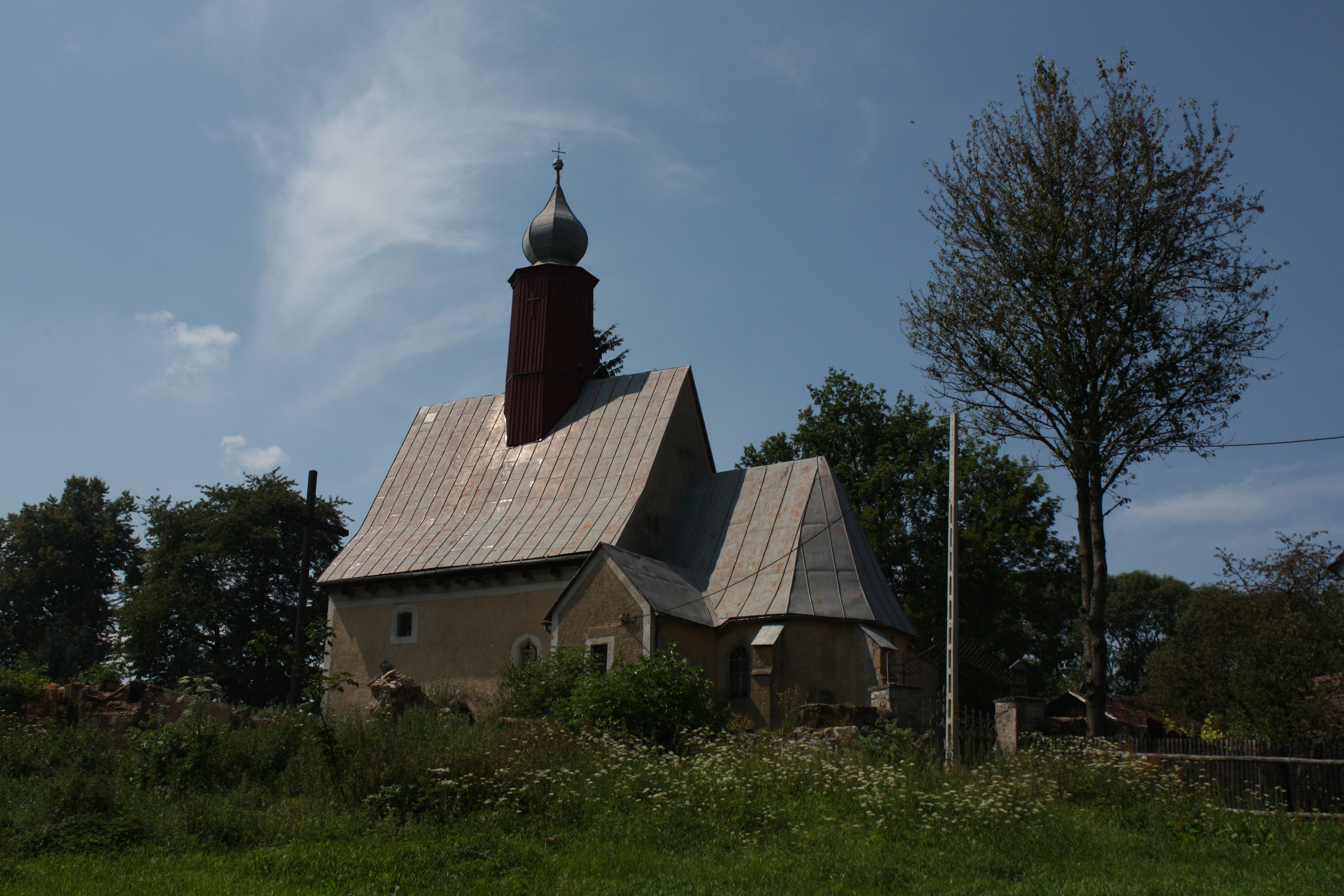 This photo of Lower Silesian Voivodeship was taken during Wikiexpedition 2013 set up by Wikimedia Polska Association. You can see all photographs in category Wikiekspedycja 2013. English | Polski | +/−